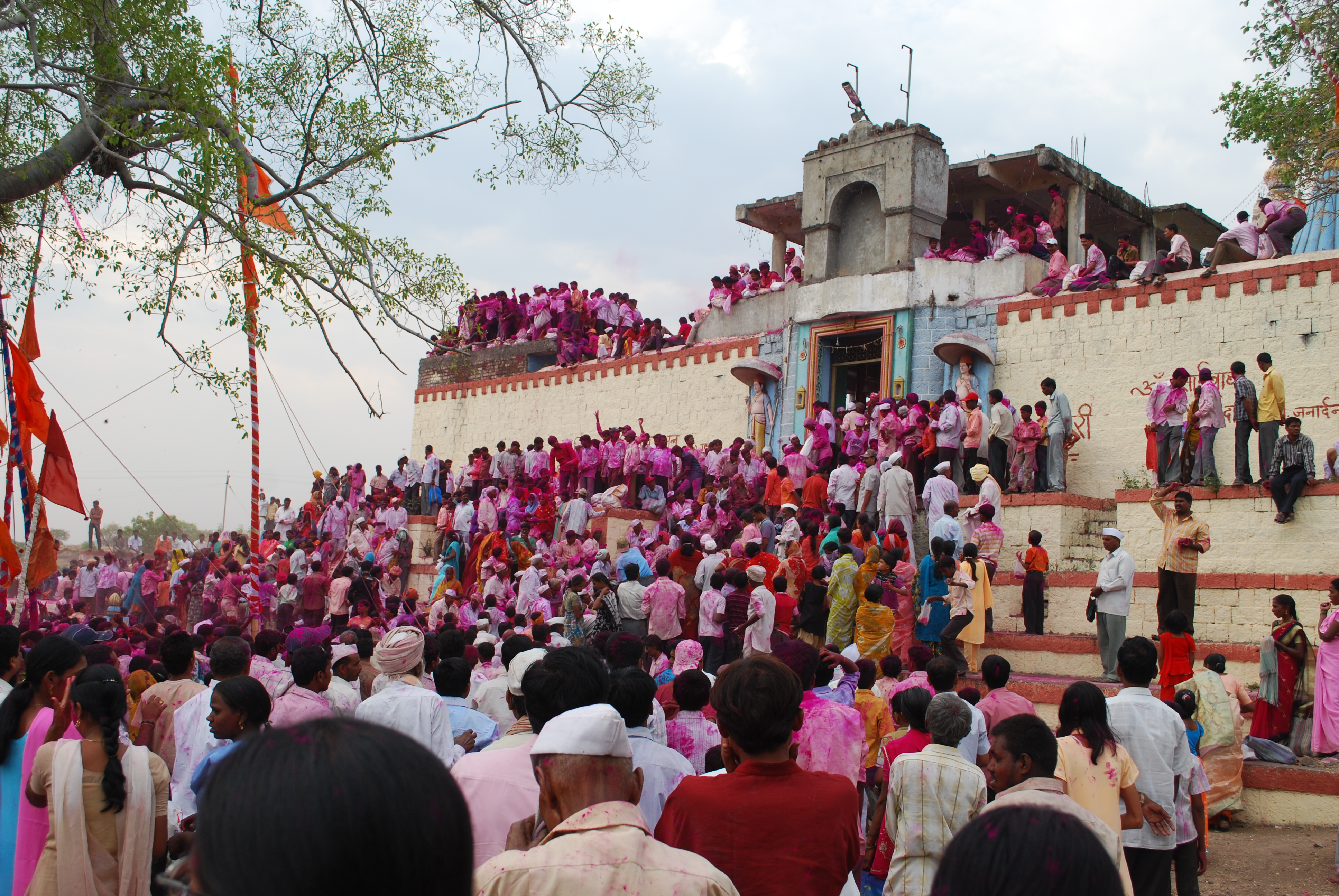 Shri Bhoodsiddhnath Mandir